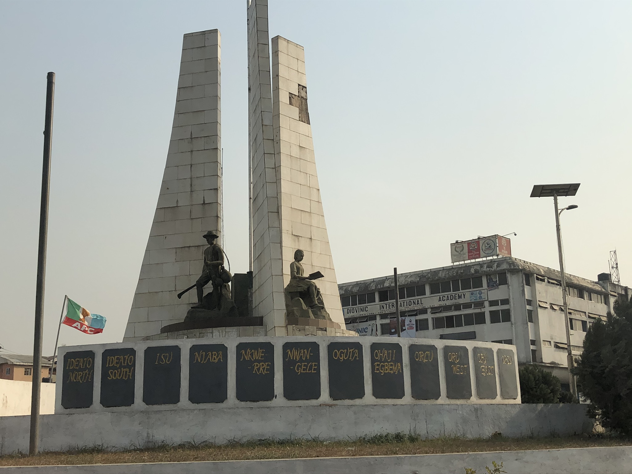 Statue Tourist attraction in Owerri Imo State